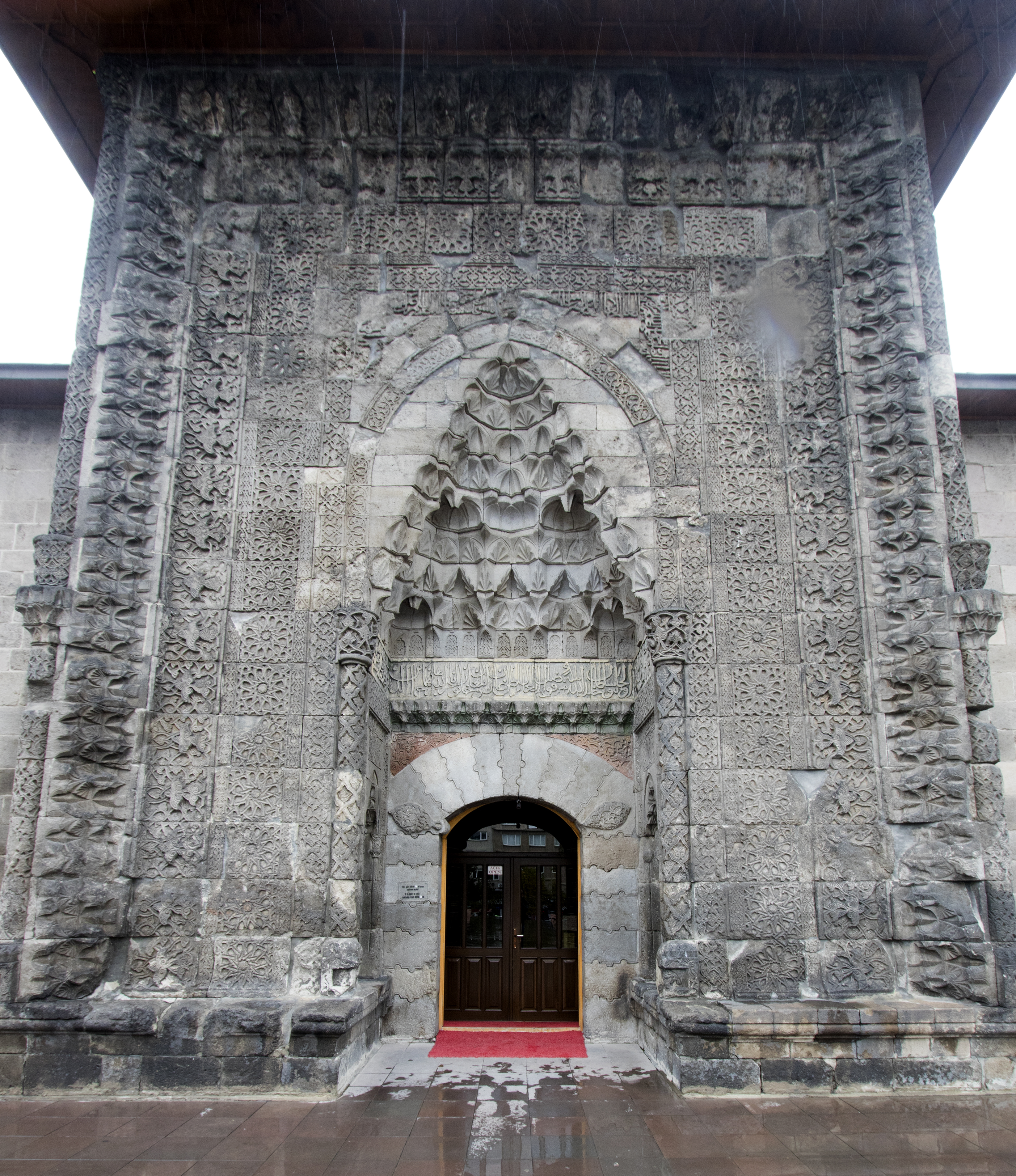 Main entrance of Yakutiye Madrasah. Erzurum, Turkey.